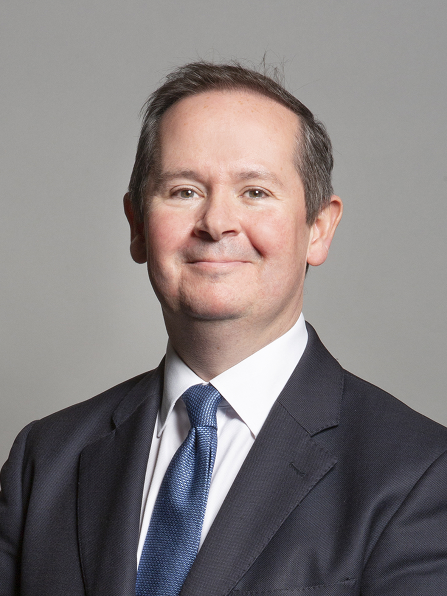 Official portrait of David Simmonds MP 3×4 portrait of David Simmonds